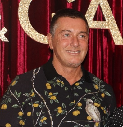 Stefano Gabbana (left) & Domenico Dolce (right).